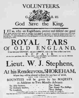 Royal Navy recruitment poster form the Napoleonic wars